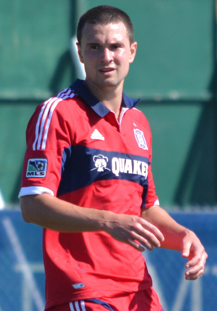 Austin Berry, defender for the Chicago Fire.